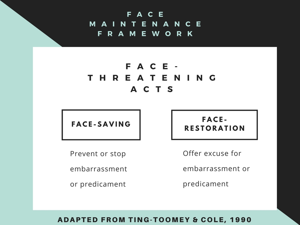 A figure to explain the Face maintenance Framework